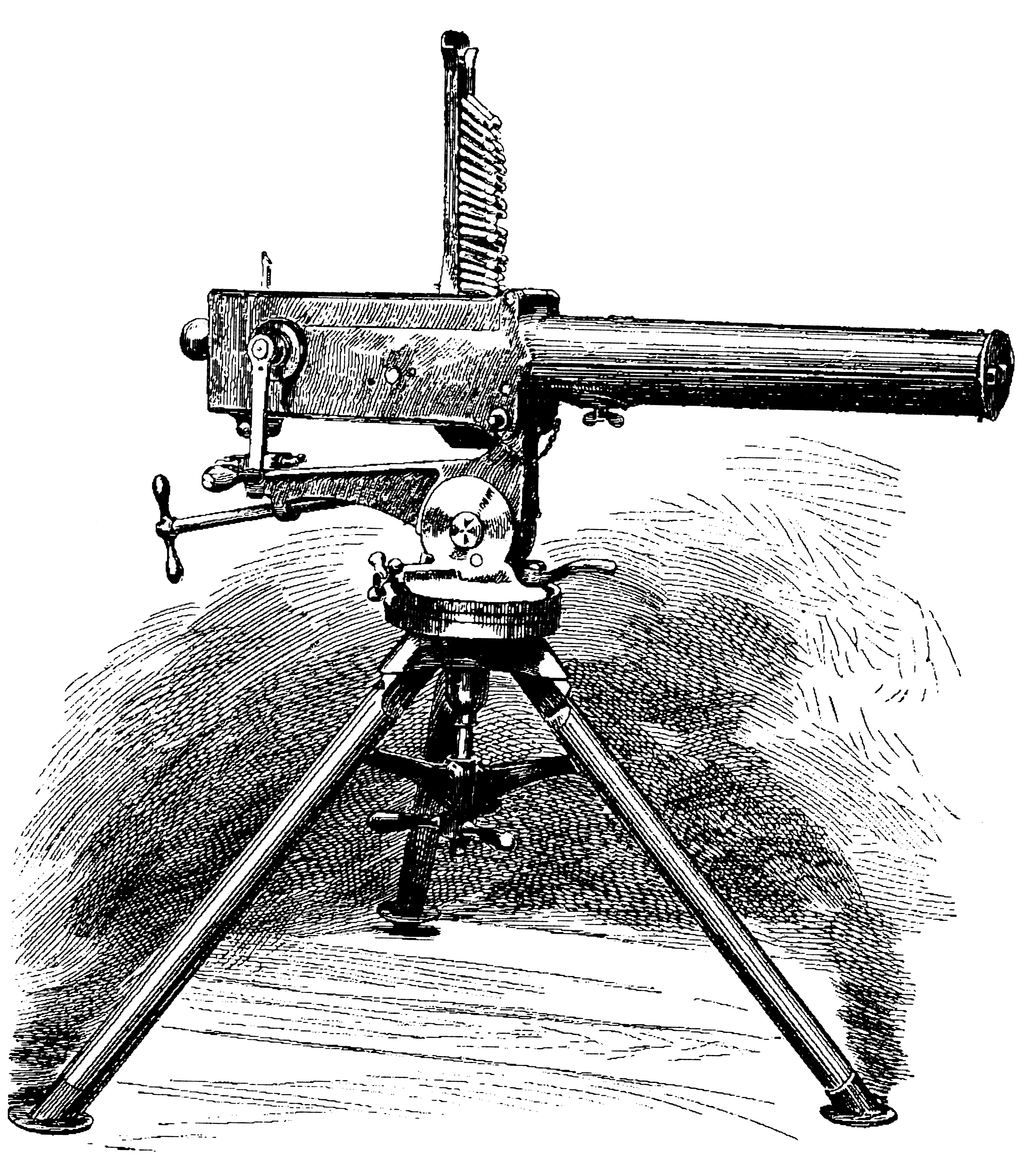 A two barreled gardner gun on a tripod from the article "American Machine Cannon and Dynamite Guns"